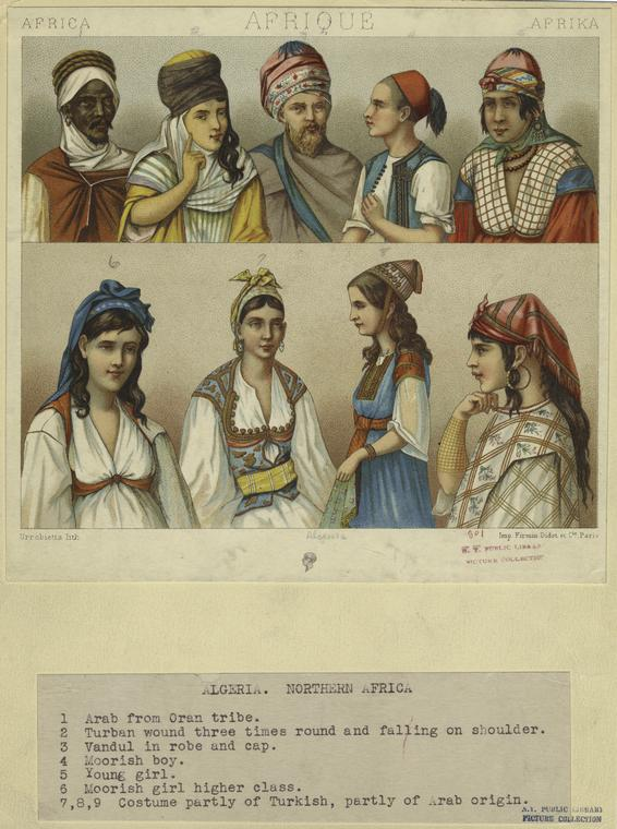 1. Arab rom Oran tribe ; 2. Turban wound three times round and falling on shoulder ; 3. Vandul in robe and cap ; 4. Moorish boy ; 5. Young girl ; 6. Moorish girl higher class ; 7, 8, 9. Costume partly of Turkish, partly of Arab origin." Printed on mount: "Algeria. Northern Africa.